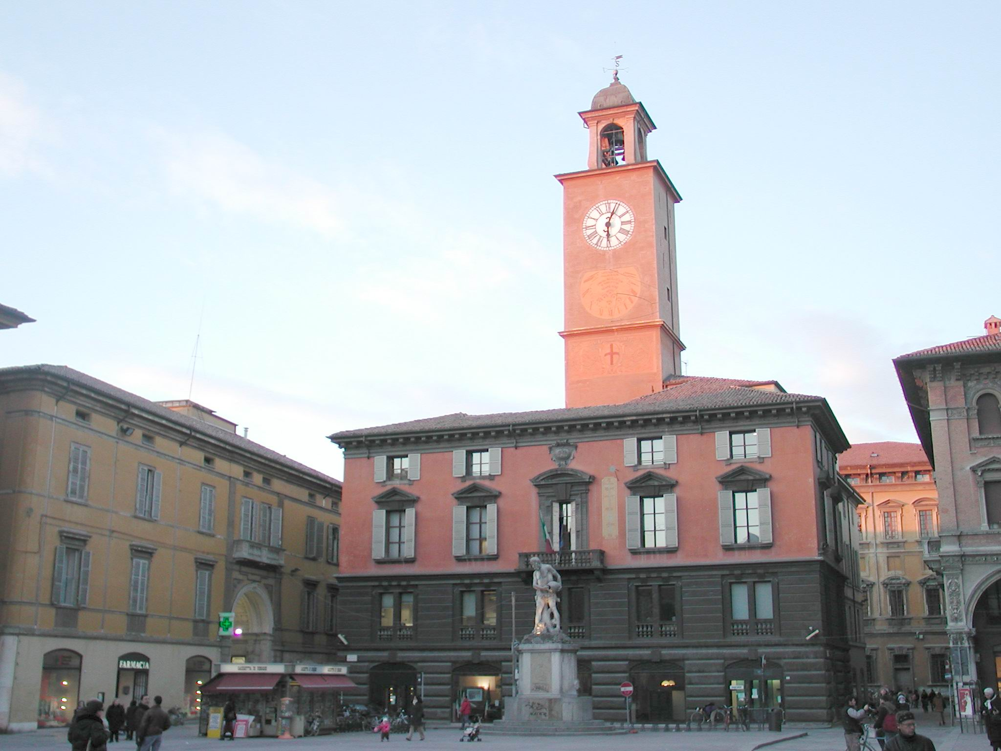 Place of "Duomo" with the Palace "Del Monte" of Emilia region, Italy.